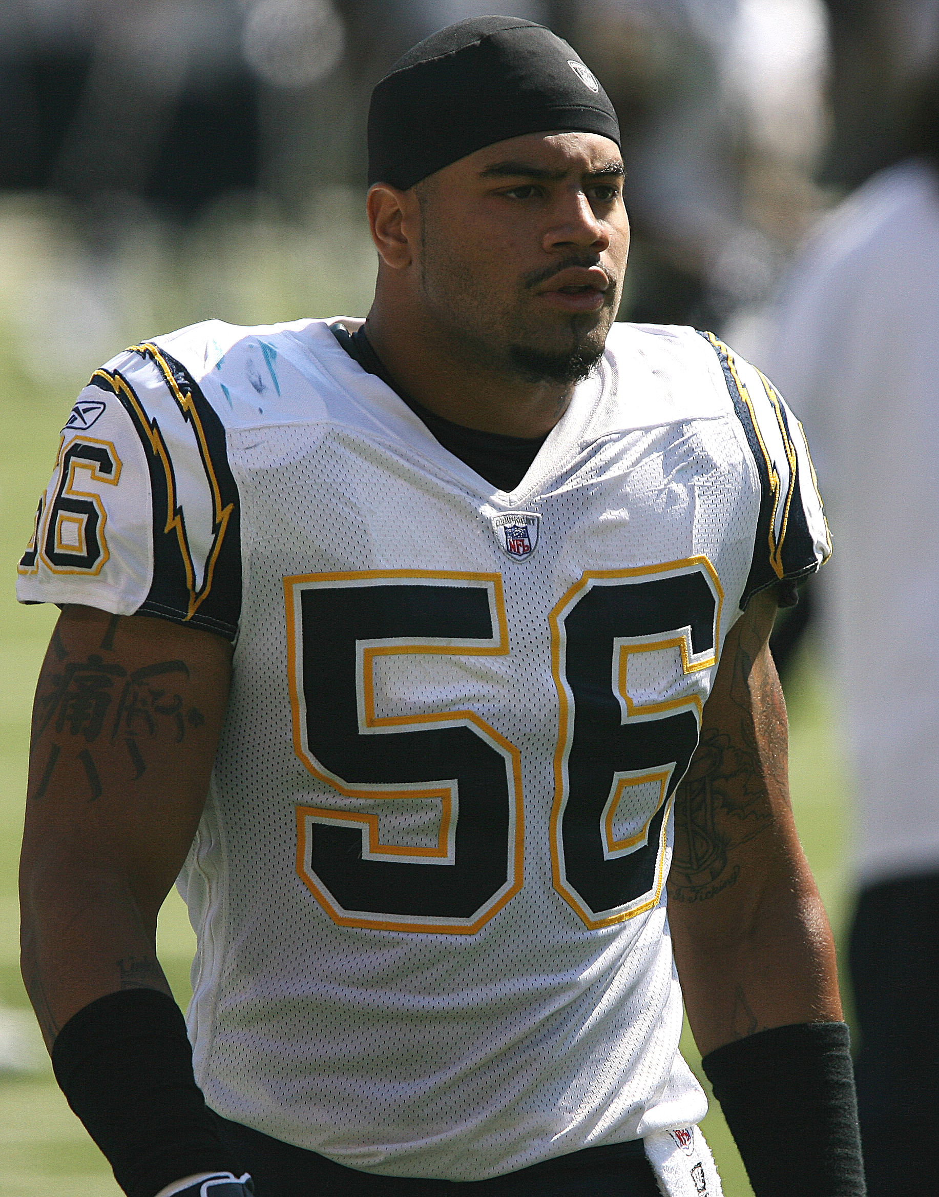 Shawne Merriman, American football player for the San Diego Chargers